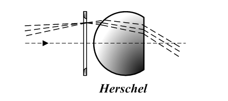 Herschel eyepiece.